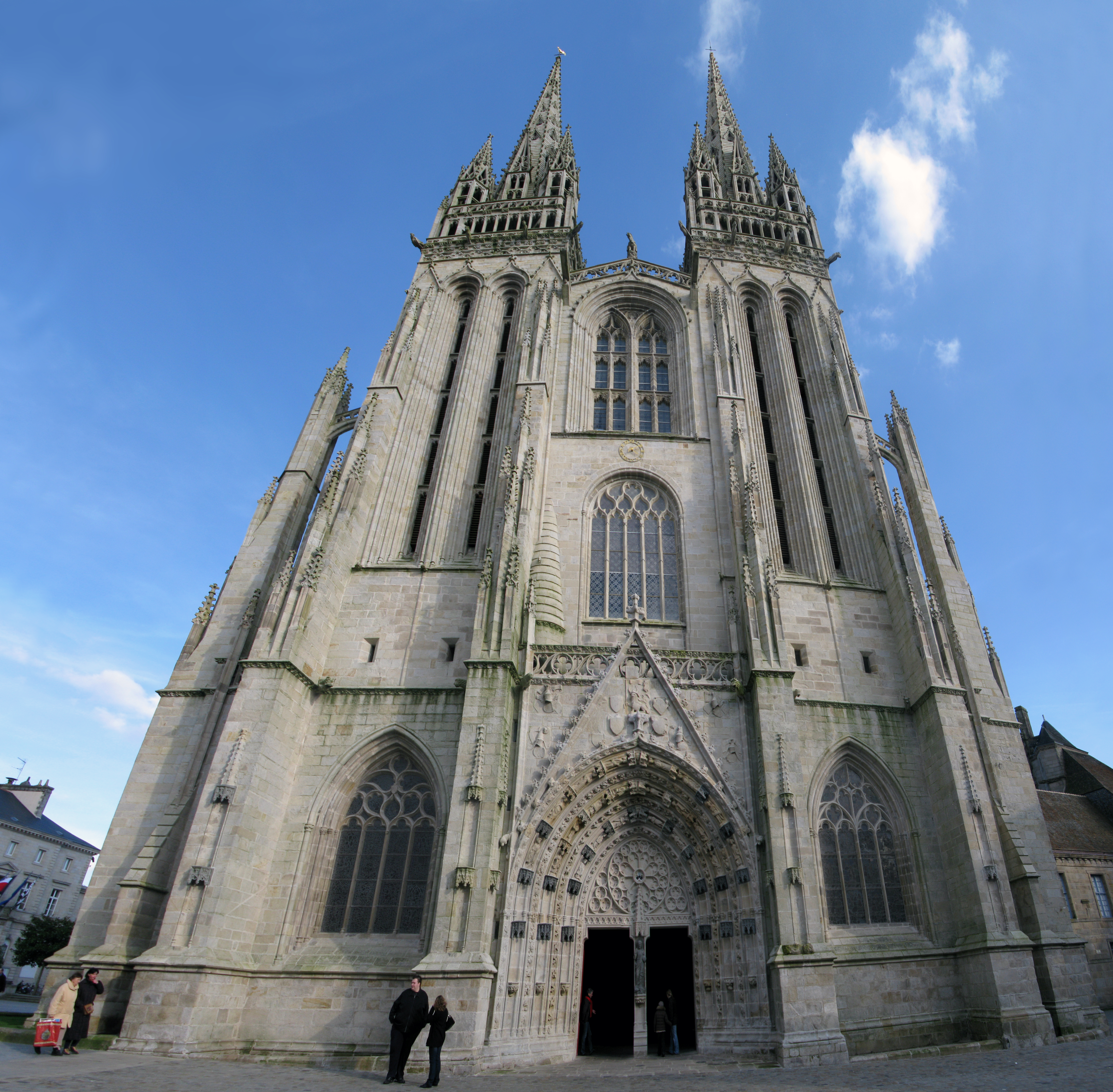 The main side of the cathedral, as seen from the town square